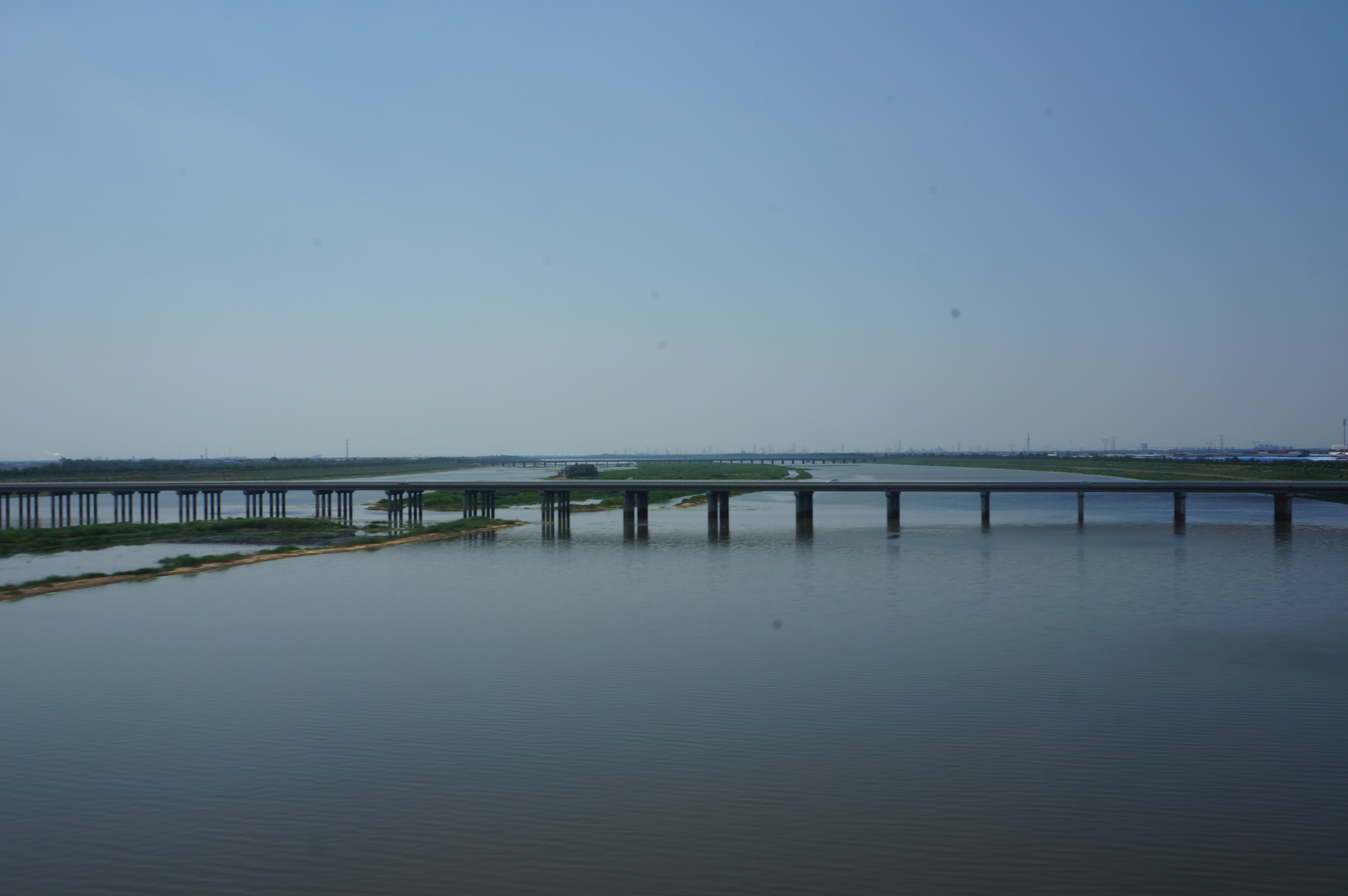 201606 Daqing River in Tianjin